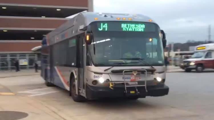 WMATA New Flyer DE40LFA 6457 on J4. This bus was usually at Northern division I don't know why it was running on the J4 during this time.